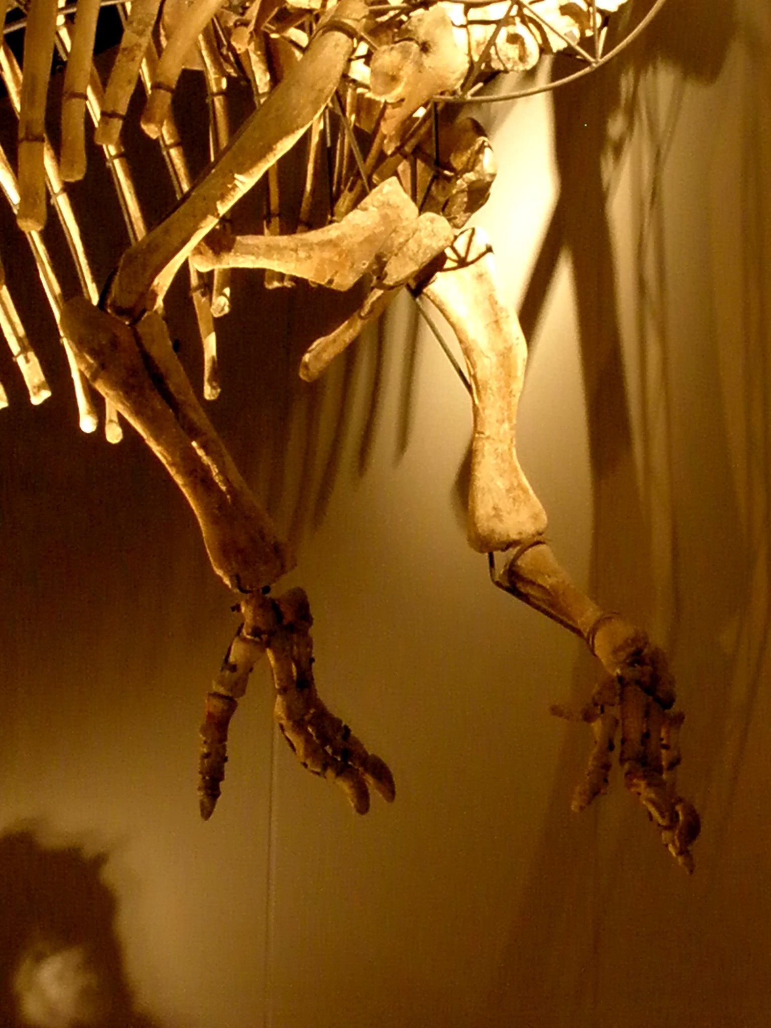 Took the photo at Museo di Storia Naturale di Venezia